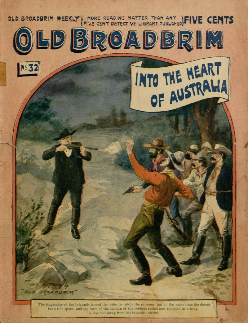 Old Broadbrim Into the Heart of Australia or, A Strange Bargain and Its Consequences, Old Broadbrim, No. 32. New York, May 9, 1903.